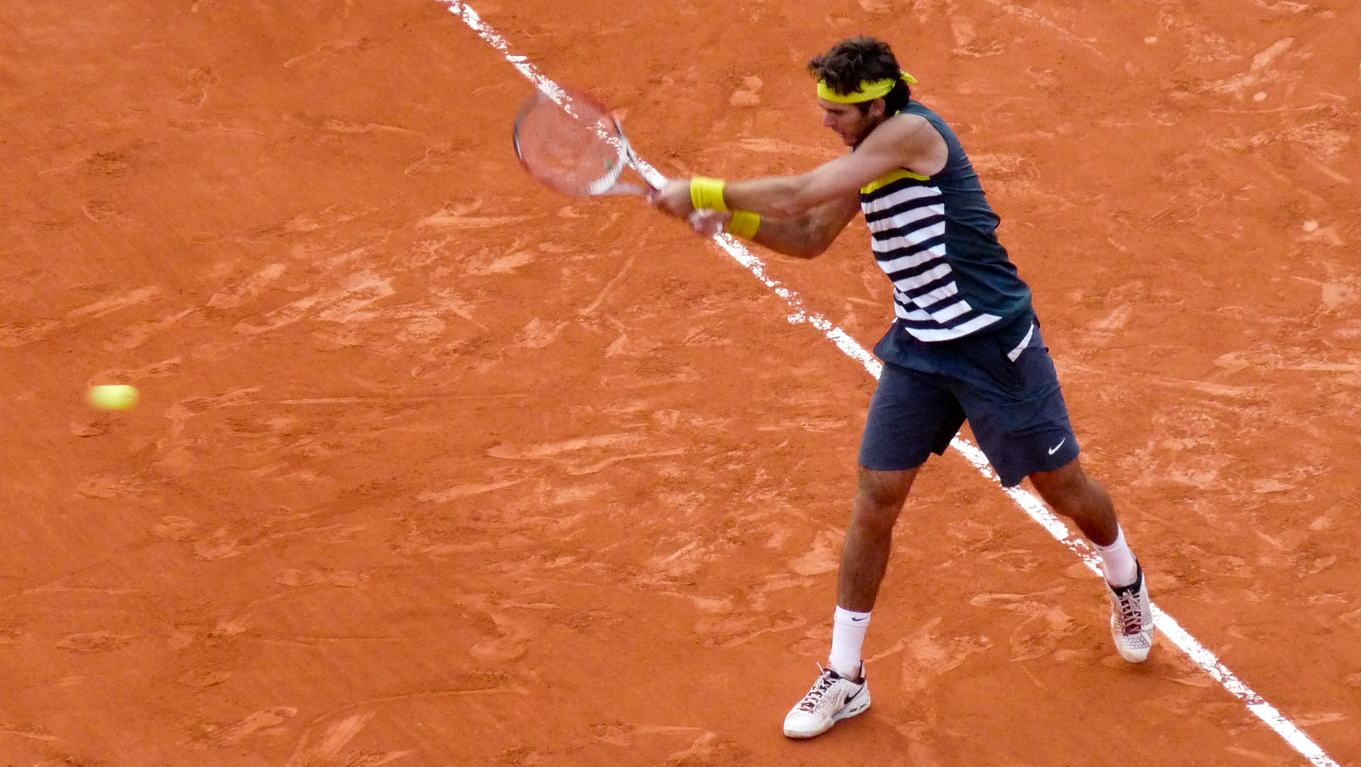 Juan Martín del Potro against Roger Federer in the 2009 French Open semifinals